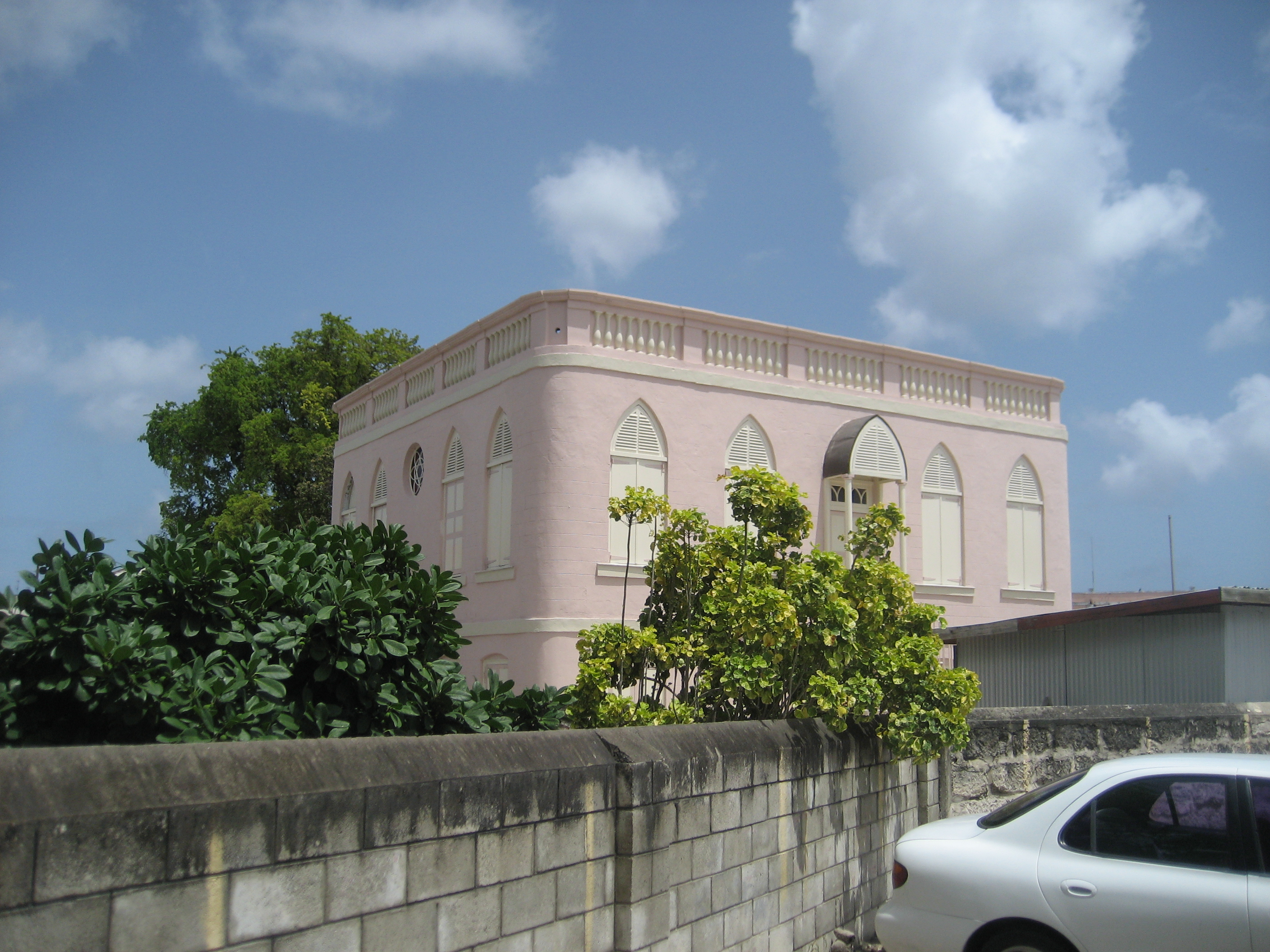 Street view of Nidhe Israel Synagogue in Bridgetown, Barbados.